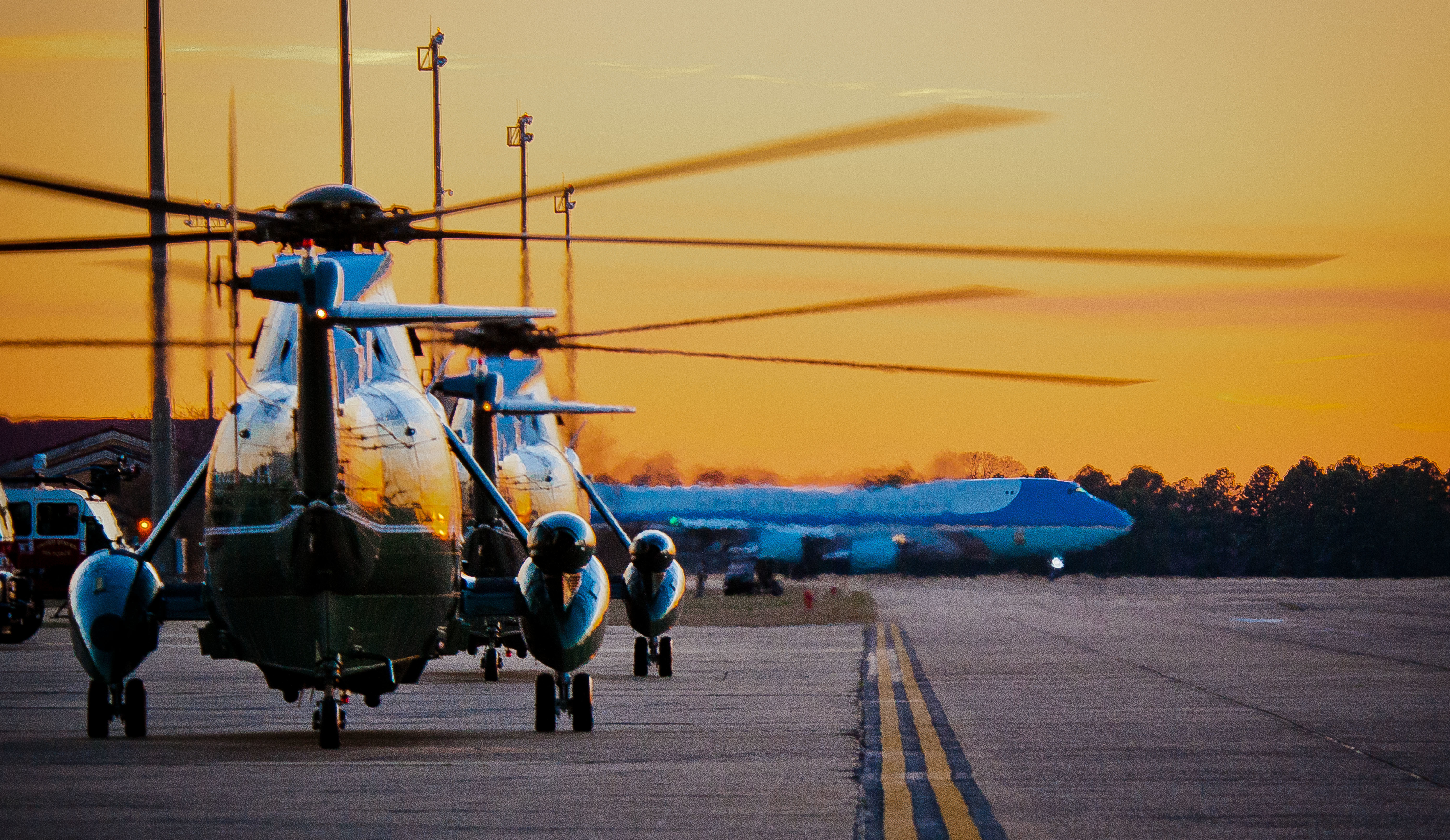 Air Force One departs Maxwell Air Force Base, Saturday, March 7, 2015. President Barack Obama landed at Maxwell to board Marine One to go to Selma, Ala., to speak at the 50th anniversary commemorating the Selma to Montgomery March for voting rights. (U.S. Air Force Photograph by Donna L. Burnett/Released)